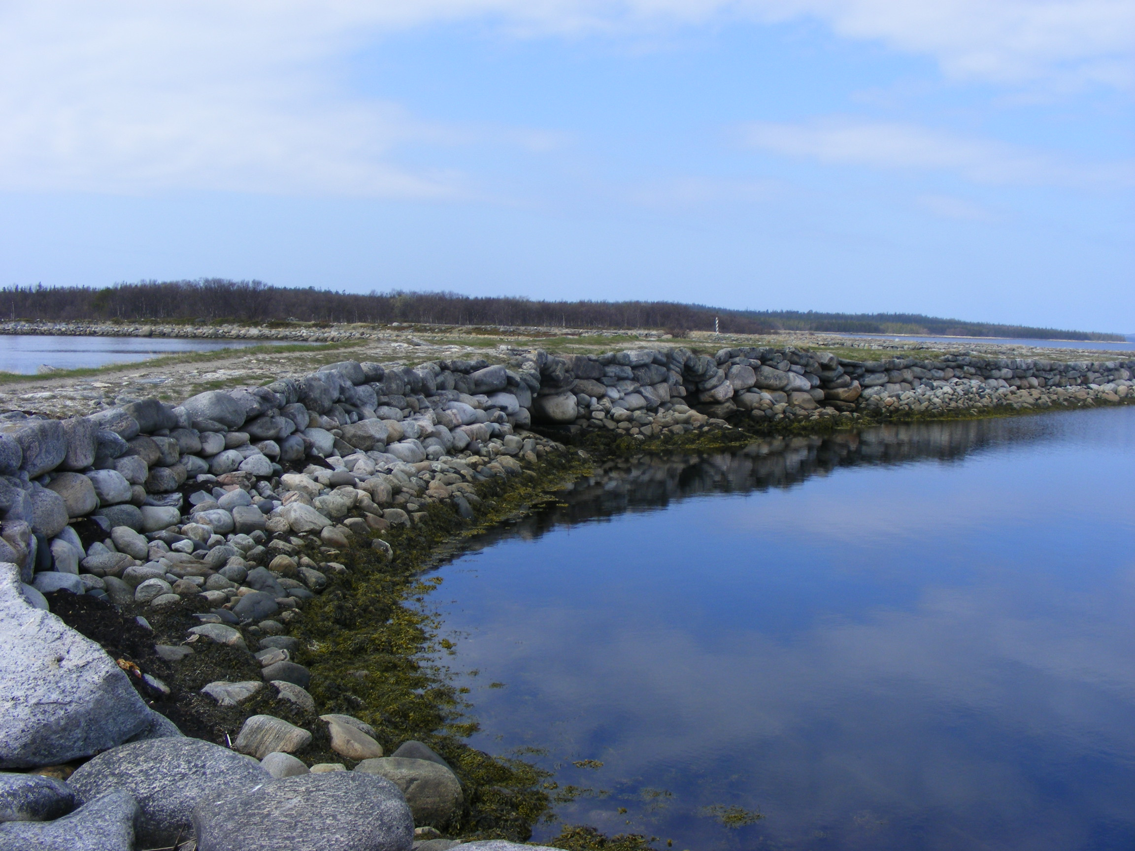 Dam between Bolshoy Soloveckiy and Muksolma Islands, Russia.